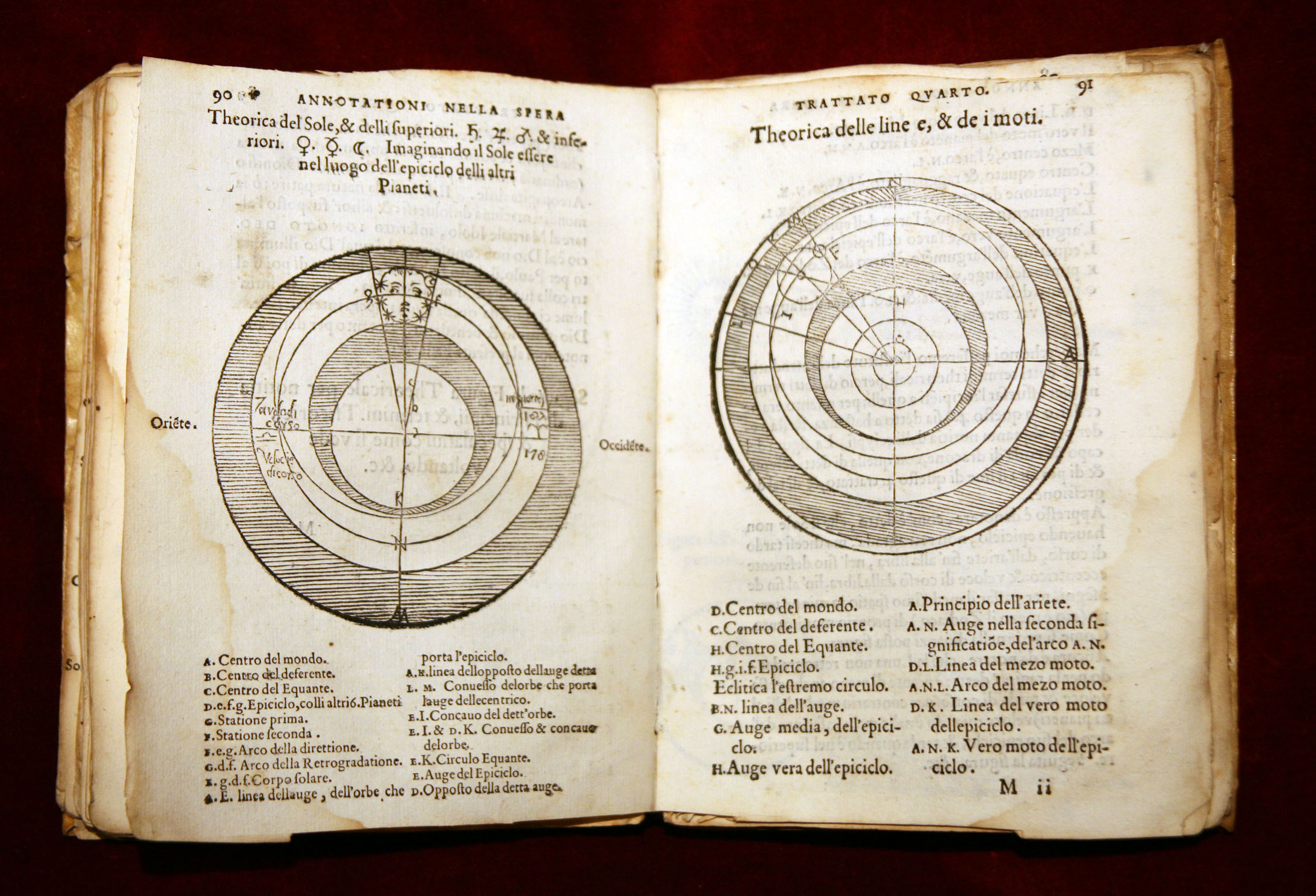 Ptolemaic system. "Annotazione sopra la Lettione della Spera del Sacrobosco" Photo of the pages 90 and 91 with models of the ptolemaic system. From the ancient books collection of Mario Taddei